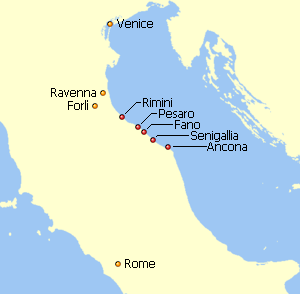 Map showing the 56 towns of the Pentapolis (red) with some other towns in the exarchate of Ravenna.